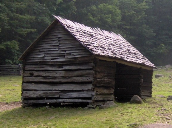 Corn crib at the Jim Bales Place on the Roaring Fork Motor Nature Trail in the Great Smoky Mountains of Tennessee, USA.